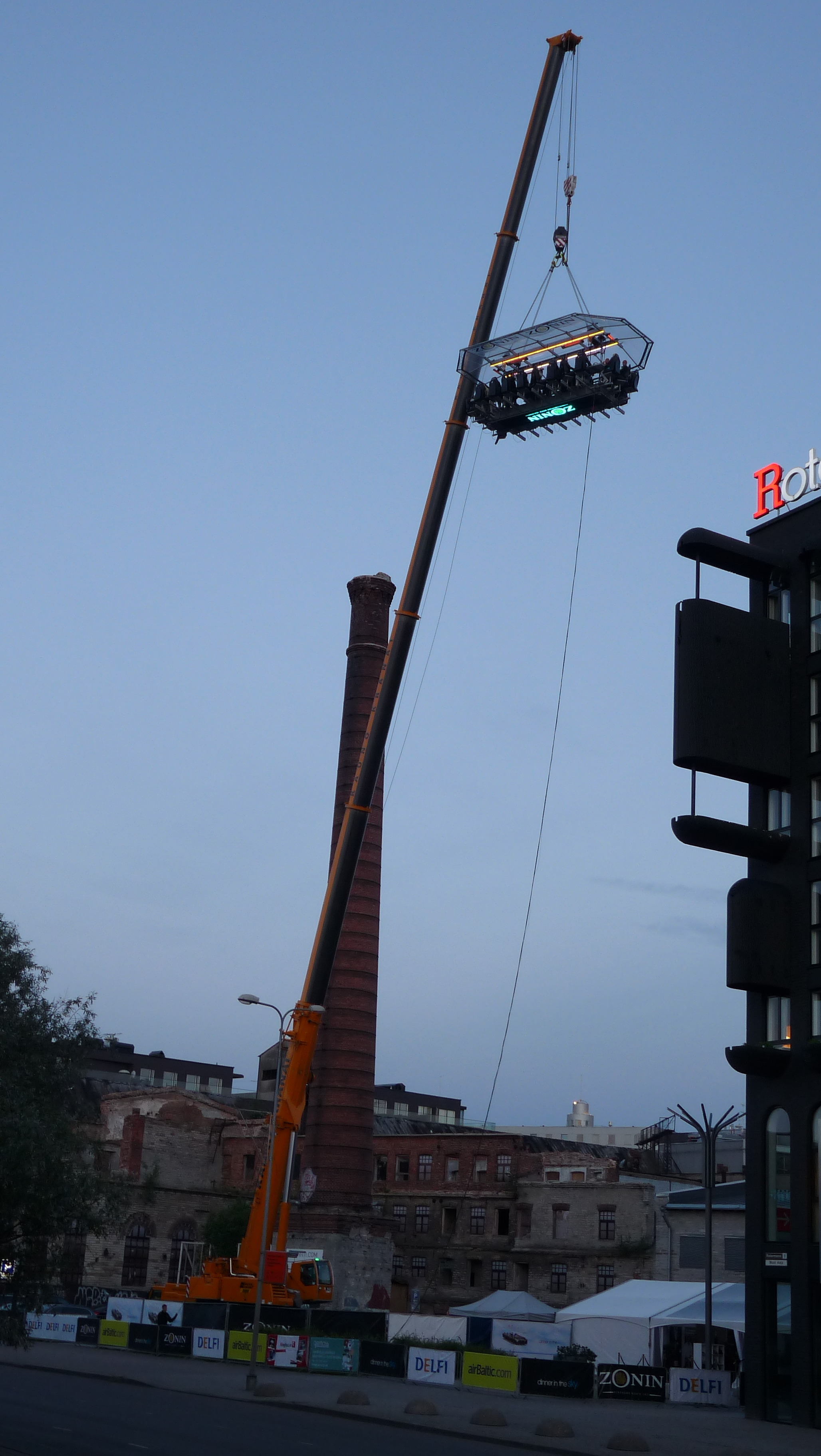 Dinner in the sky in Tallinn, Estonia